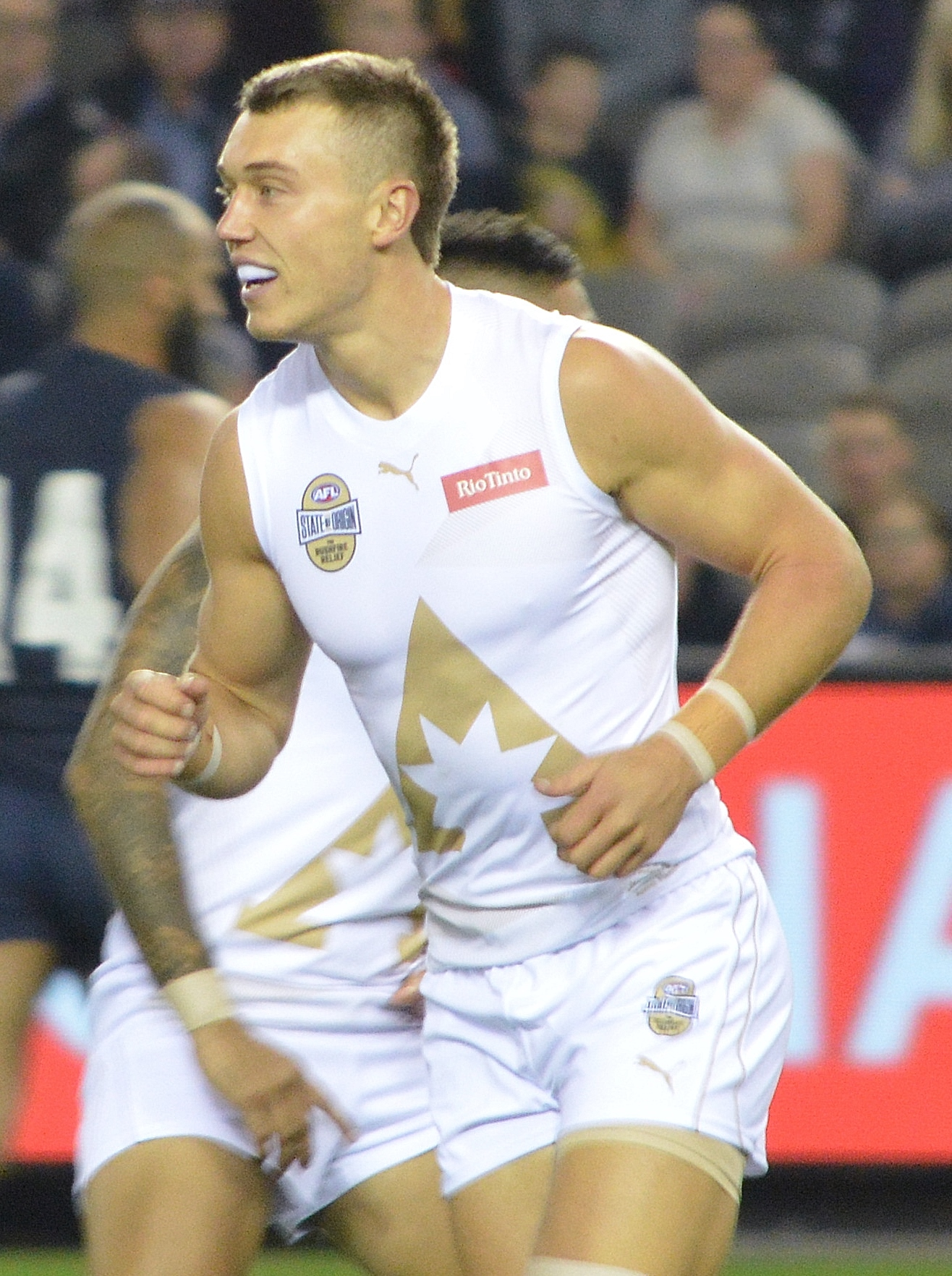 Patrick Cripps at the AFL State of Origin for Bushfire Relief Match at Marvel Stadium in February 2020.